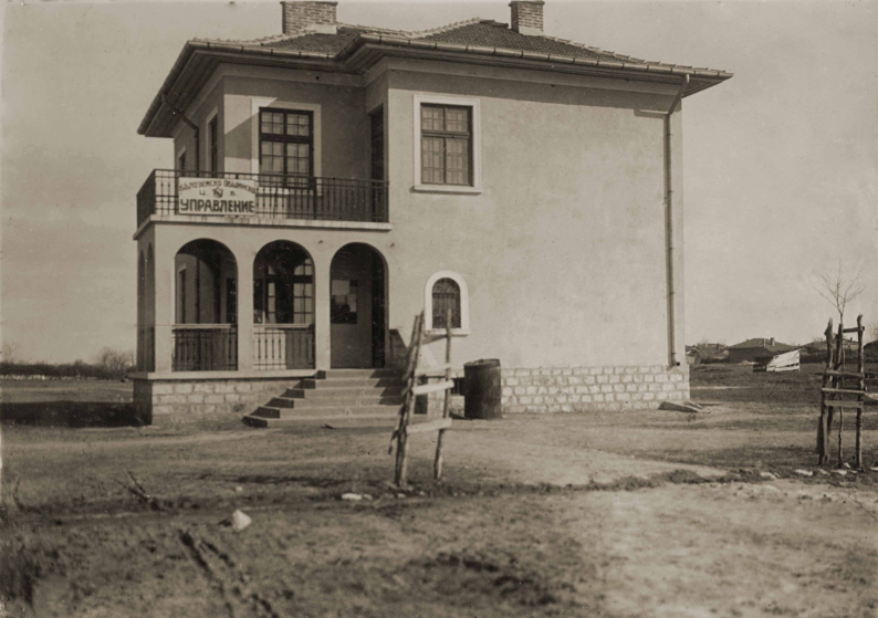 Newly built village-hall in Belozem, 1930